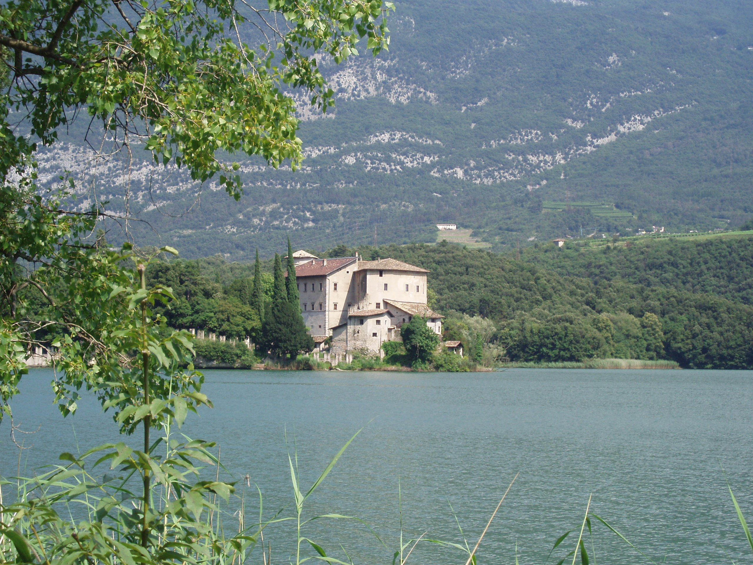 Lago di Toblino - view